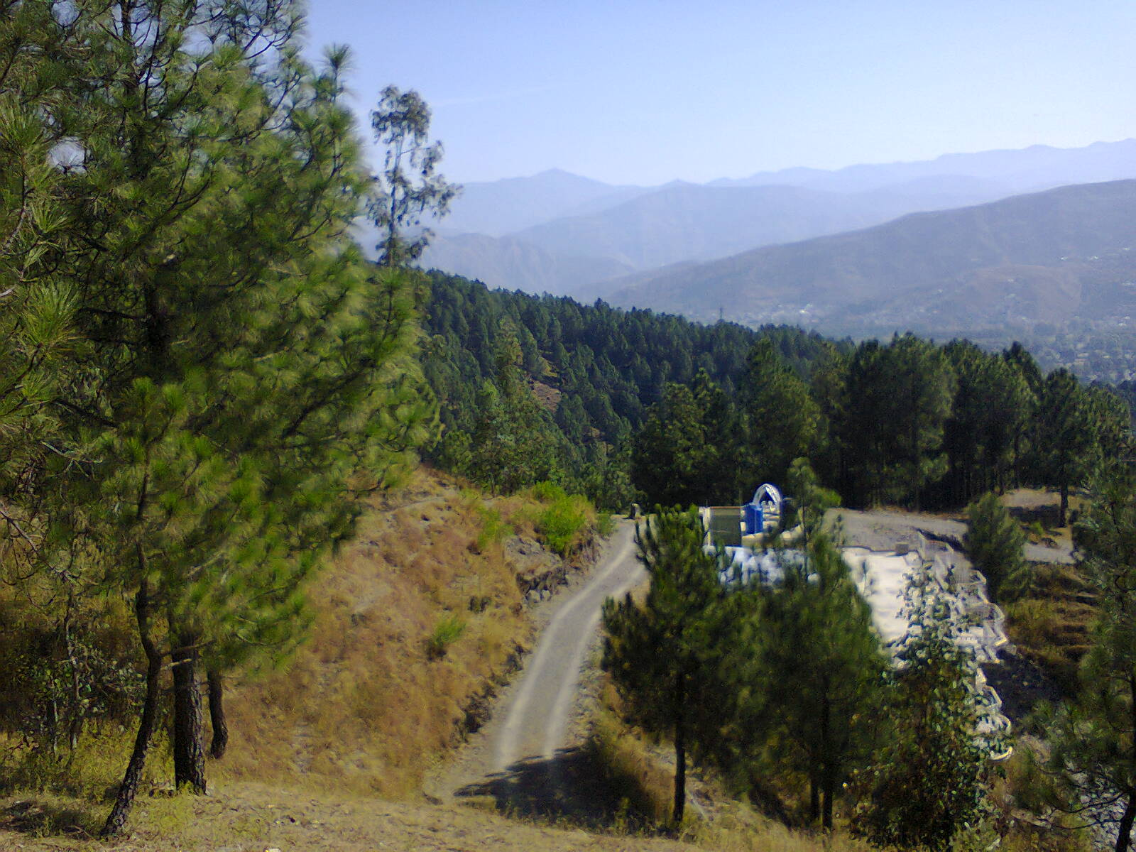 Shimla Hill climbs up on a small road behind Abbottabad town , my photo